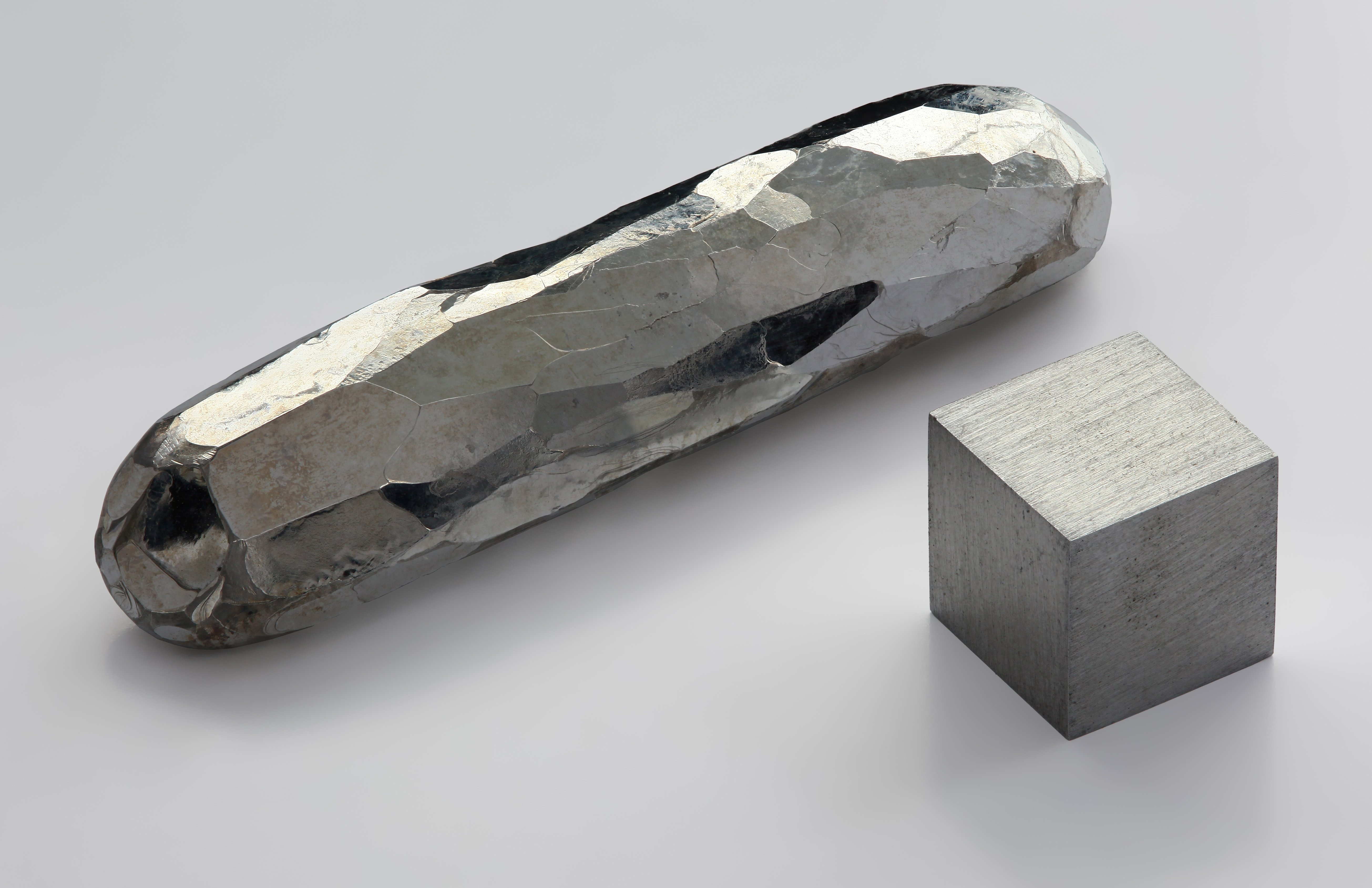 A crystal cadmium bar. Purity 99.999 %. Made by the flux process. As well as a 1 cm3 cadmium cube for comparison.